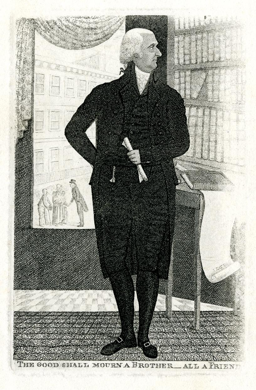 Portrait; full-length standing in a flagged interior, facing front and looking away to right, holding a scroll at waist level in his left hand, his right tucked behind his back, wearing a dark suit and queue wig; with a scroll and book on a table in front of bookcases behind to right, a view of a man giving alms to a poor family seen through the window in the background to left. 1806 Etching and aquatint